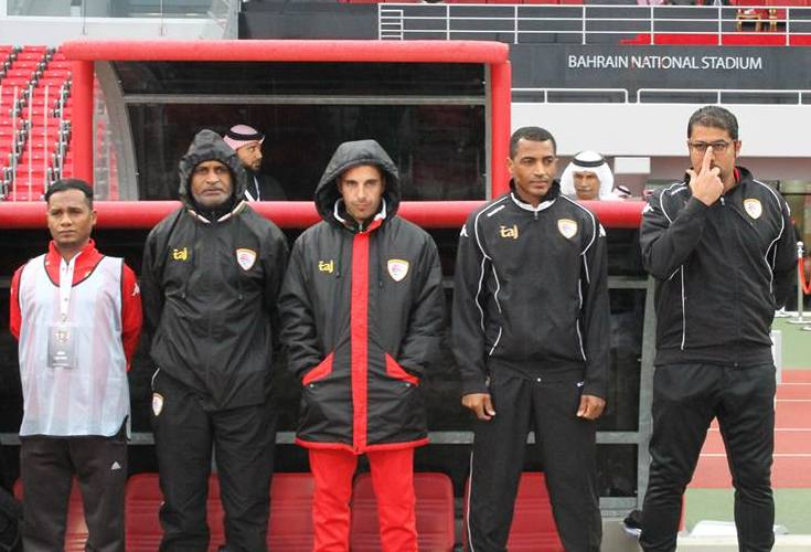 Manuel José Alves Ramos with the Oman U-23 staff under head coach Hamad Al-Azani before a match against Bahrain U23 20 January 2015 Bahrain National Stadium, Riffa, Bahrain Photographer email id